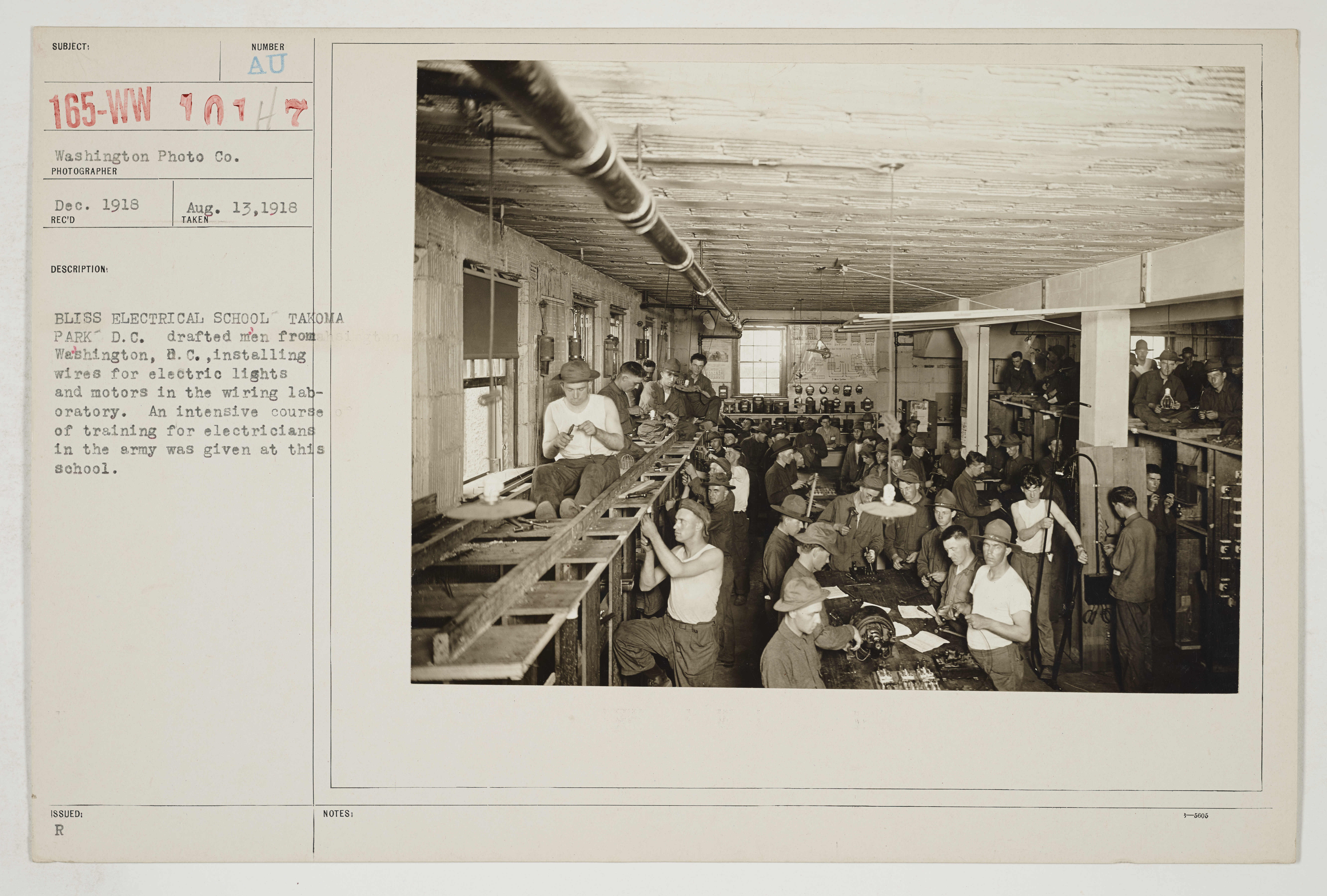 Scope and content: Original Caption: Bliss Electrical School, Takoma Park, D.C. drafted men from Washington, D.C. installing wires for electric lights and motors in the wiring laboratory. An Intensive course of training for electricians in the Army was given at this school. Date Taken: 8/13/1918